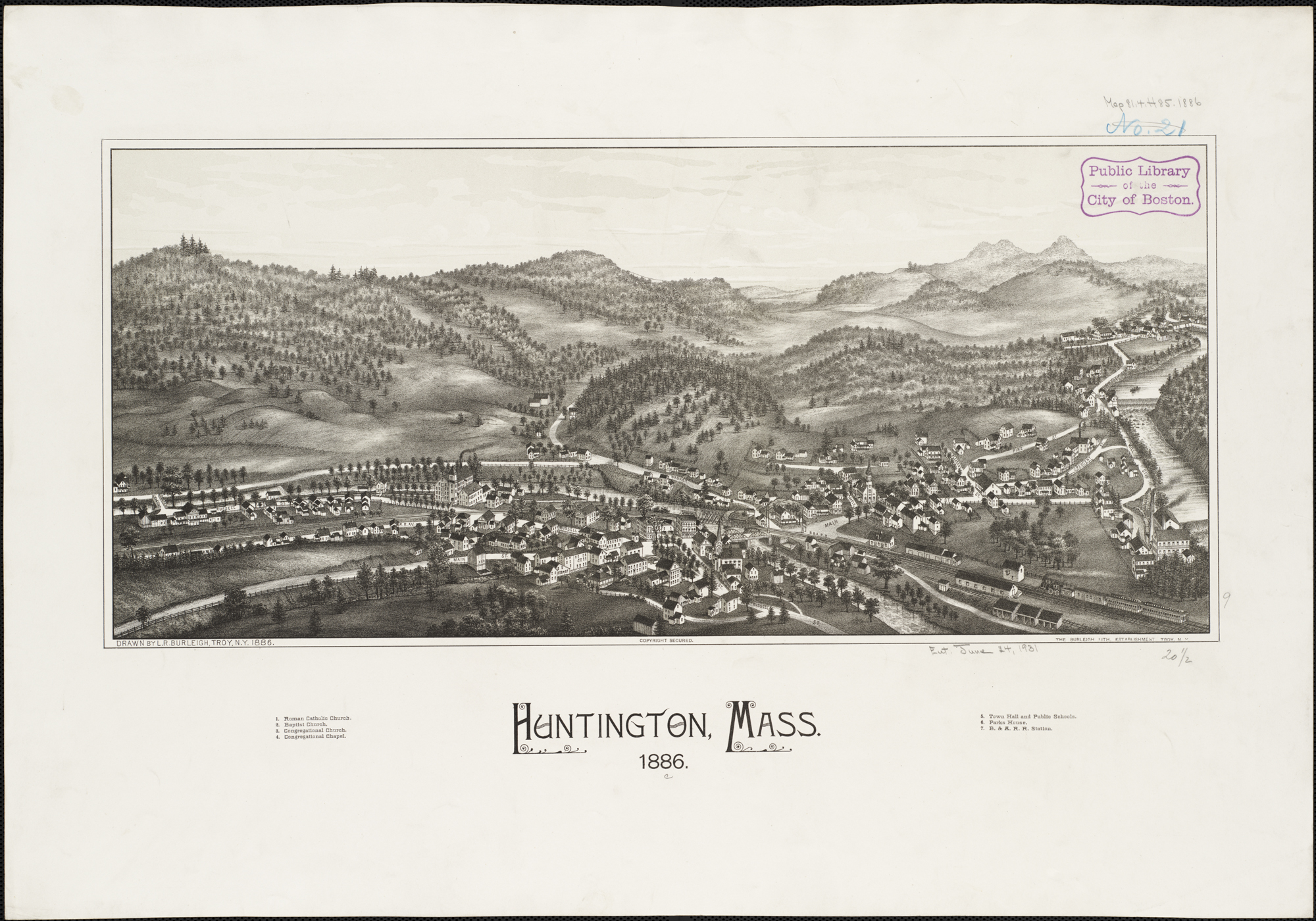 Zoom into this map at . Author: Burleigh, L. R. Publisher: [L.R. Burleigh] Date: 1886. Location: Huntington (Mass.) Scale: Not drawn to scale. Call Number: G3764.H86A3 1886.B8